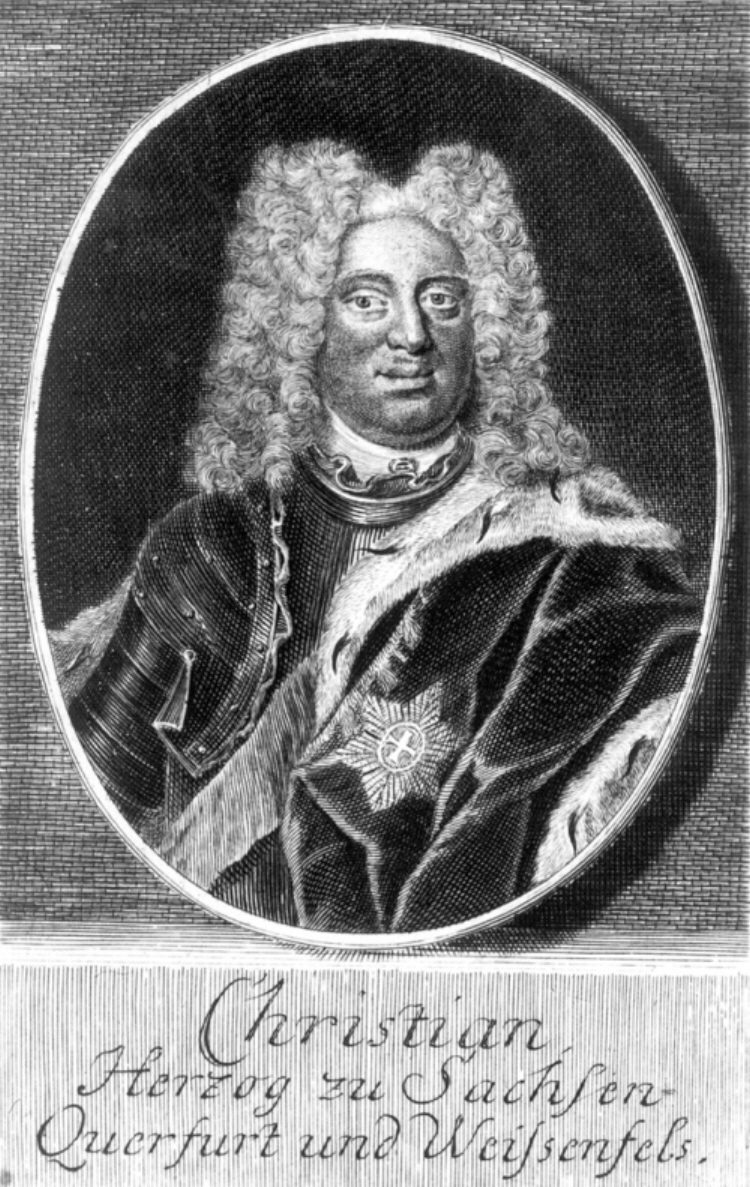 Portait of Christian, Duke of Saxe-Weissenfels (1682-1736) or his uncle Christian von Sachsen-Weißenfels (1652–1689)